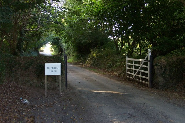 Entrance drive toTresillian House Tresillian House is a large Regency house rebuilt in 1801 and now let as holiday homes.